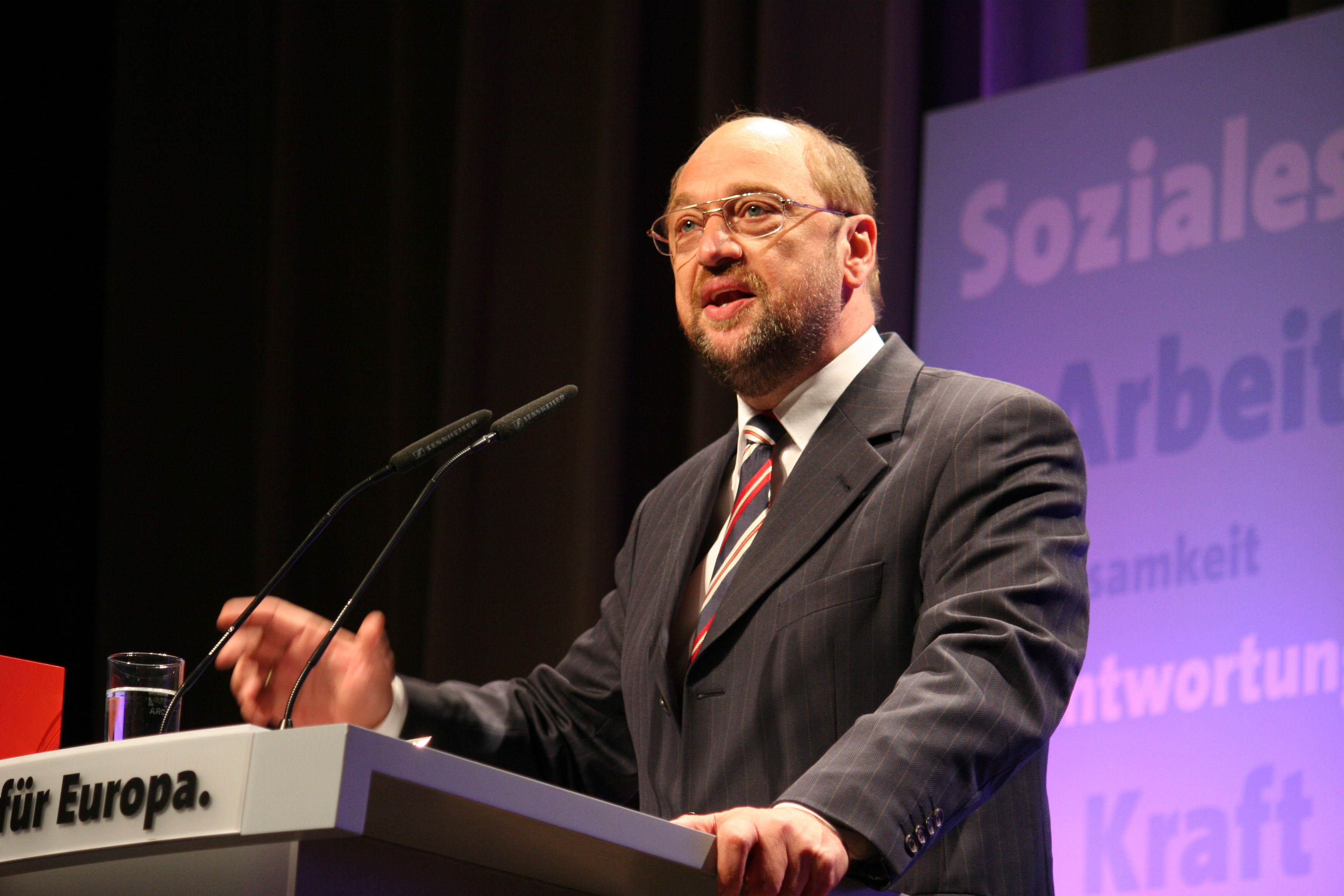 Martin Schulz during the election camapign in 2009